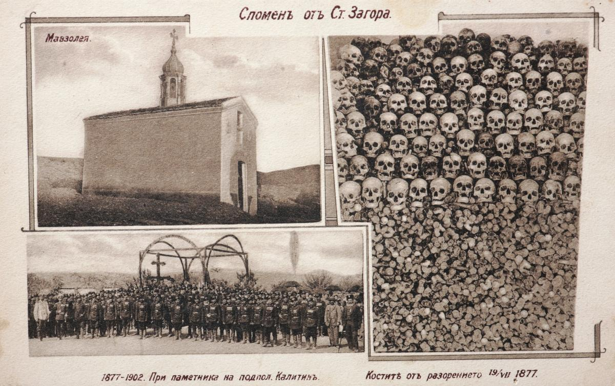 Klane na Stara Zagora